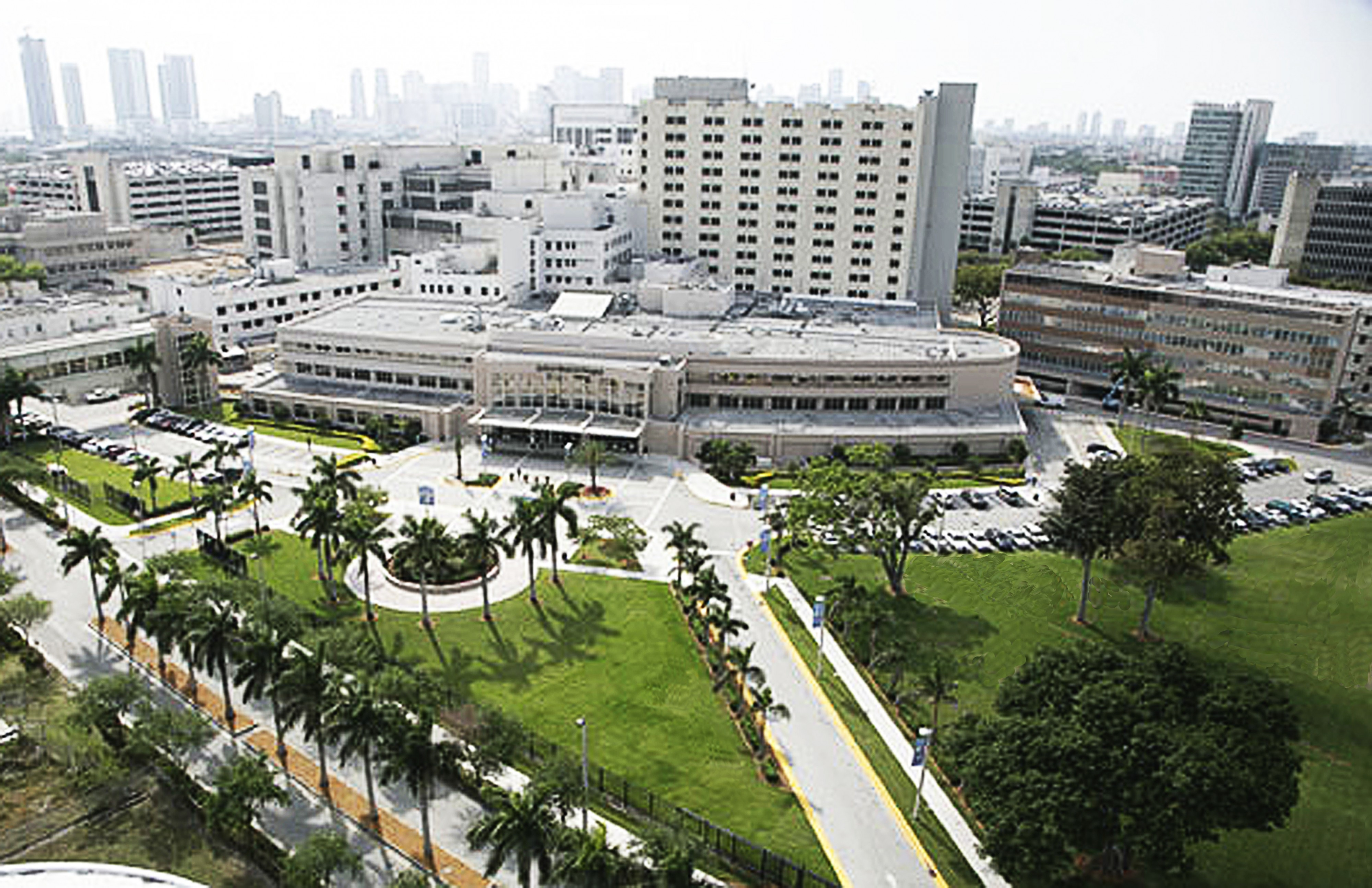 Jackson Memorial from a sky view